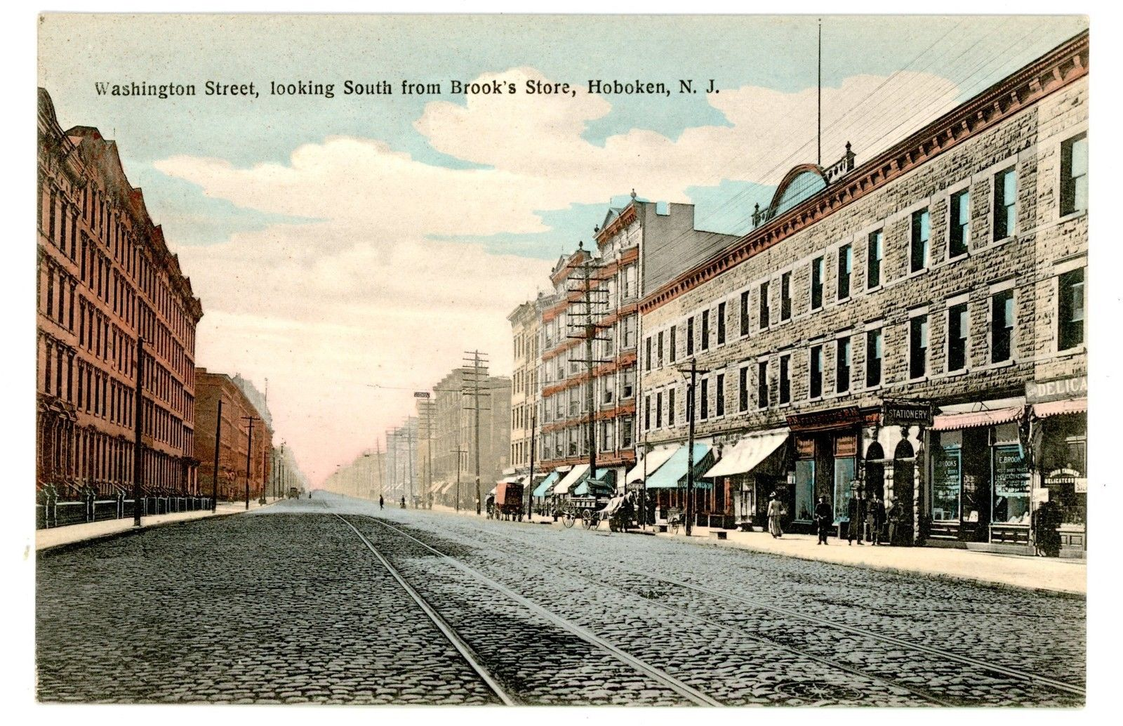 Washington Street, looking South from Brook's Store, Hoboken, NJ by publisher F. Brooks and H. Hagemeister. Unsent c1908.